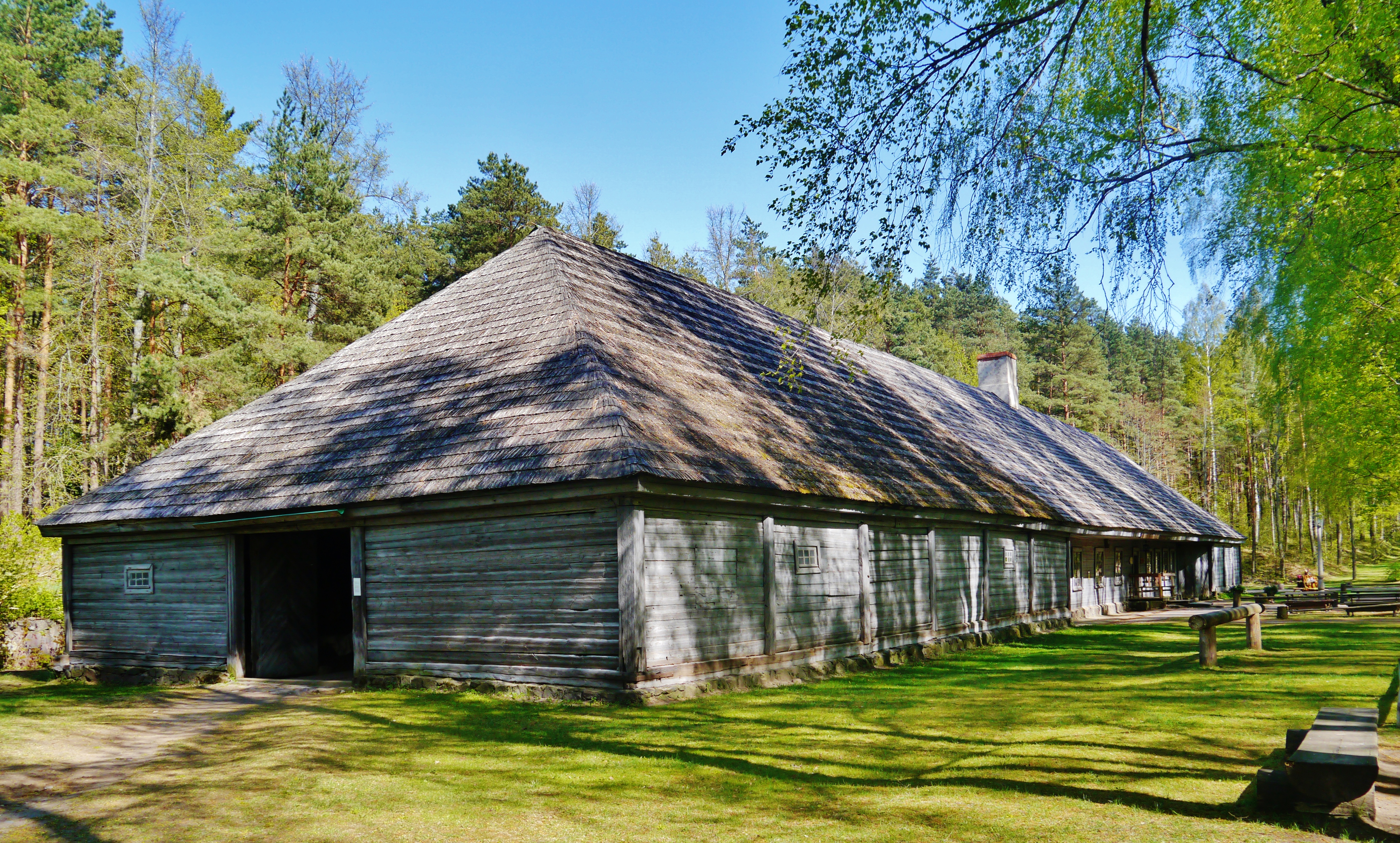 Houses of the Region of Zemgale/Semigallia, Ethnographic Museum, Bergi, Latvia